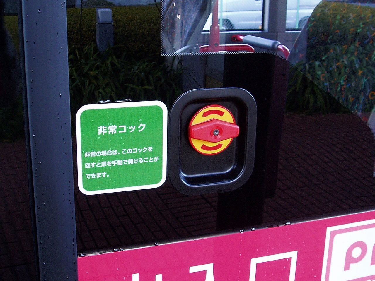 Emagency door open cock of Mercedes-Benz O530 CITARO-G